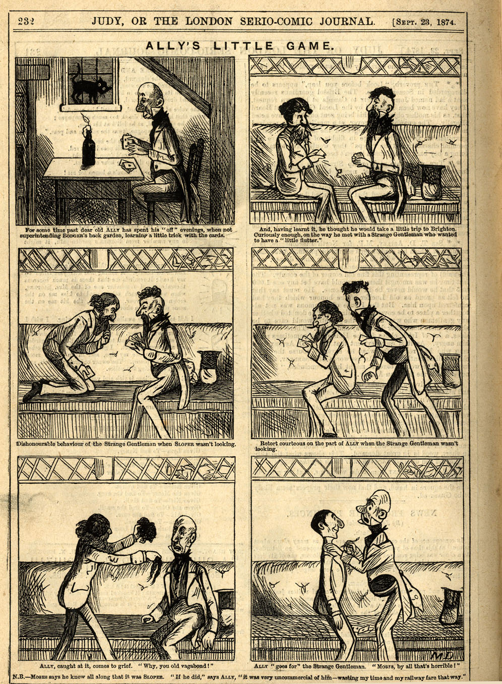 A page featuring Ally Sloper drawn (and probably written) by Mary Duval and published in Judy in the 1870's. For more details, see the title.